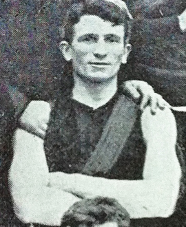 Photograph of Fred Parkinson from 1907-1910